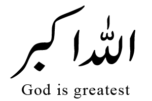 The Takbir "Allahu akbar", in Arabic script as well as English Latinate script.